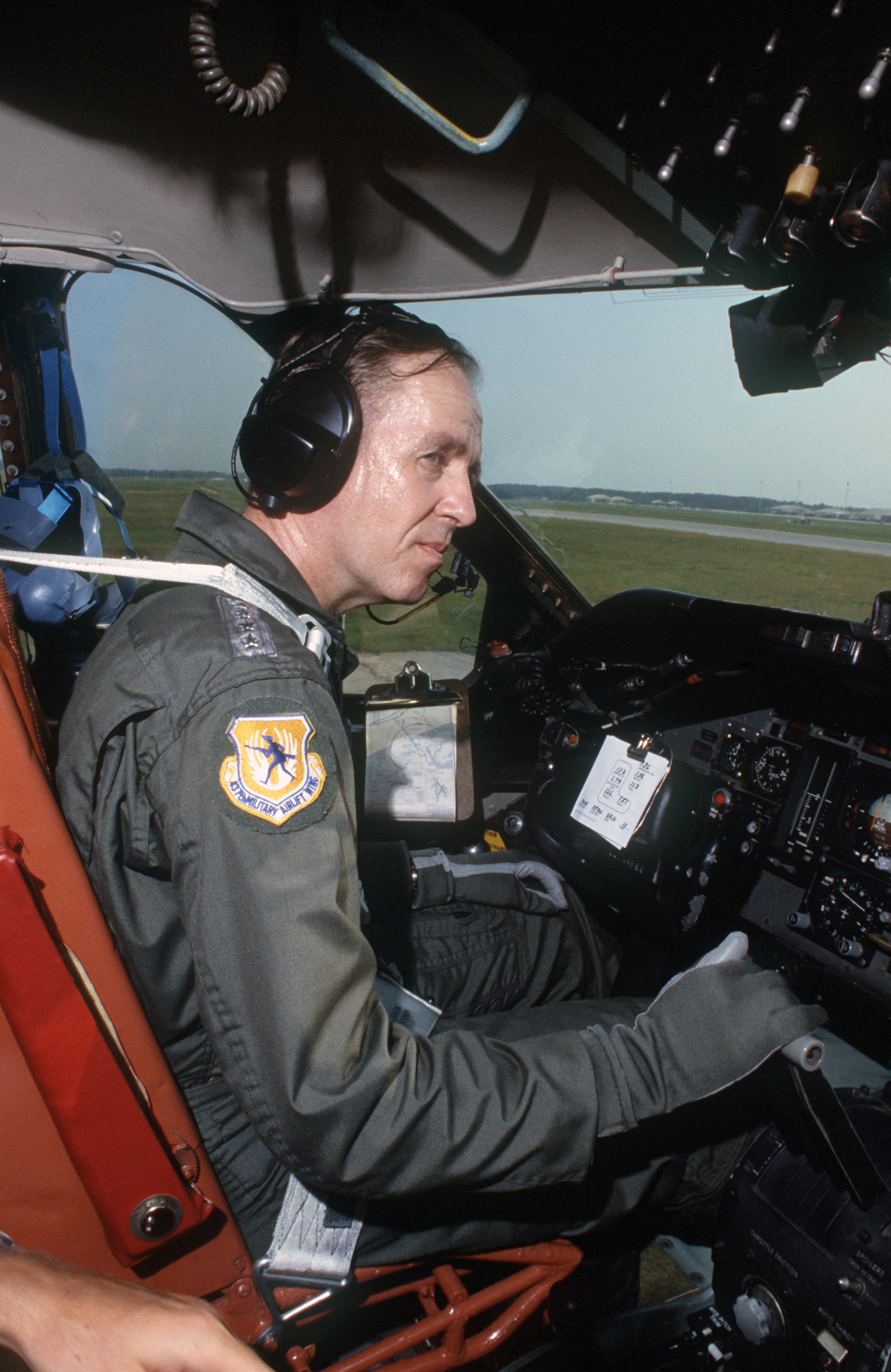 US Air Force Chief of Staff General Larry D. Welch checks right side clearance while piloting a C-141B Starlifter aircraft into position for takeoff during his visit to the base